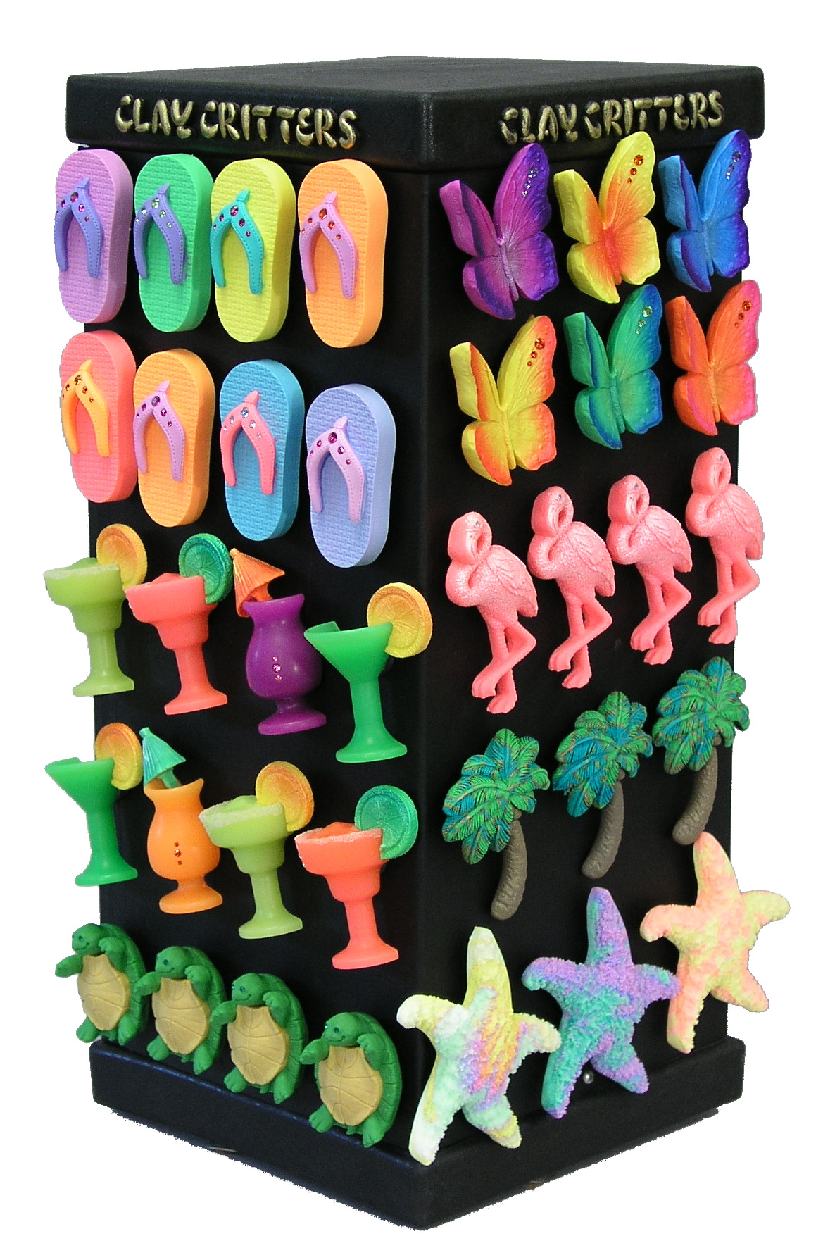 Refrigerator souvenir magnets on a Clay Critter, Inc. rotating countertop point-of-purchase display.